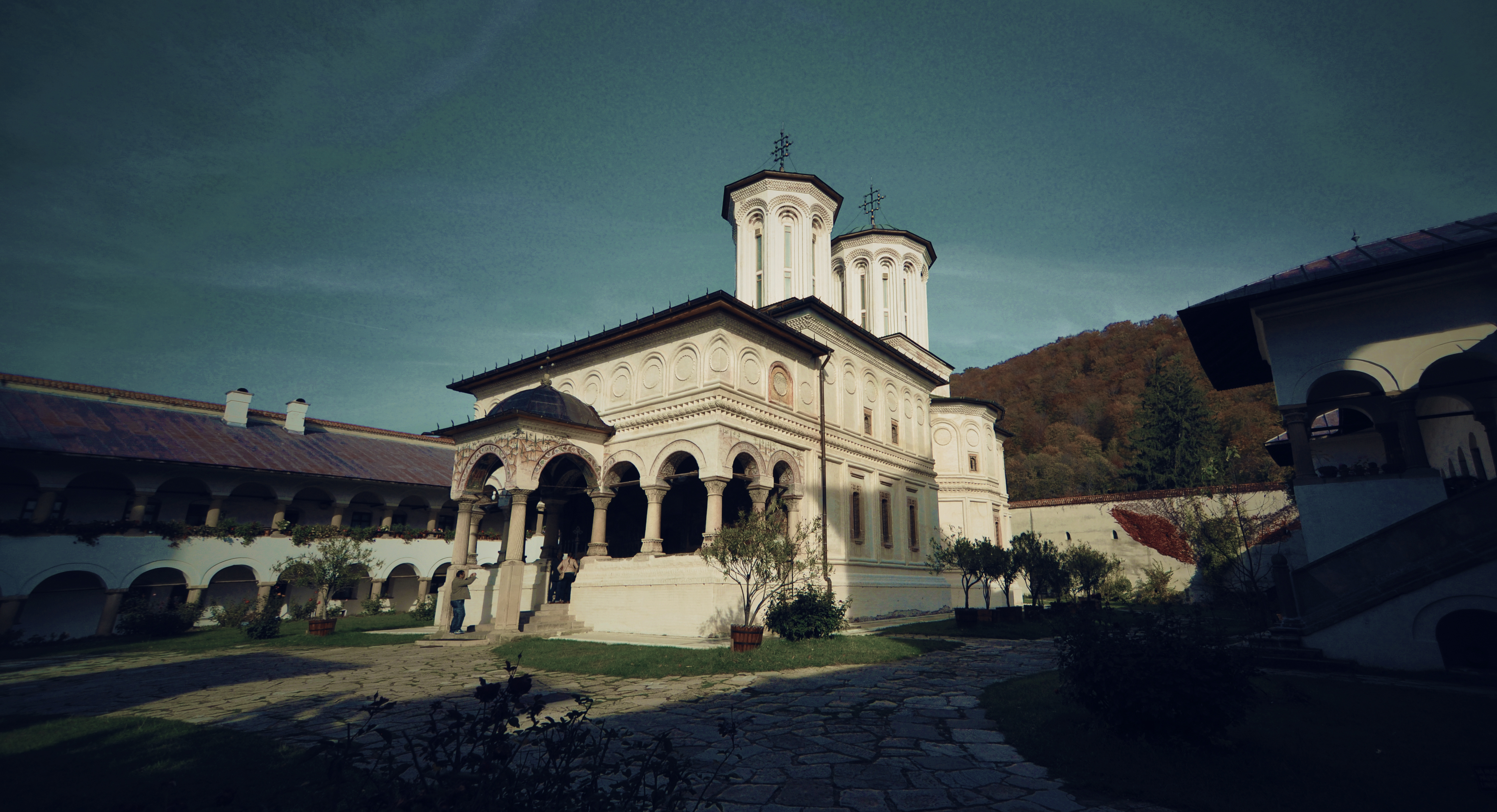 Mânăstirea Hurezi [1690 - 1709] Hurezi Monastery Monastery of Horezu UNESCO World Heritage list